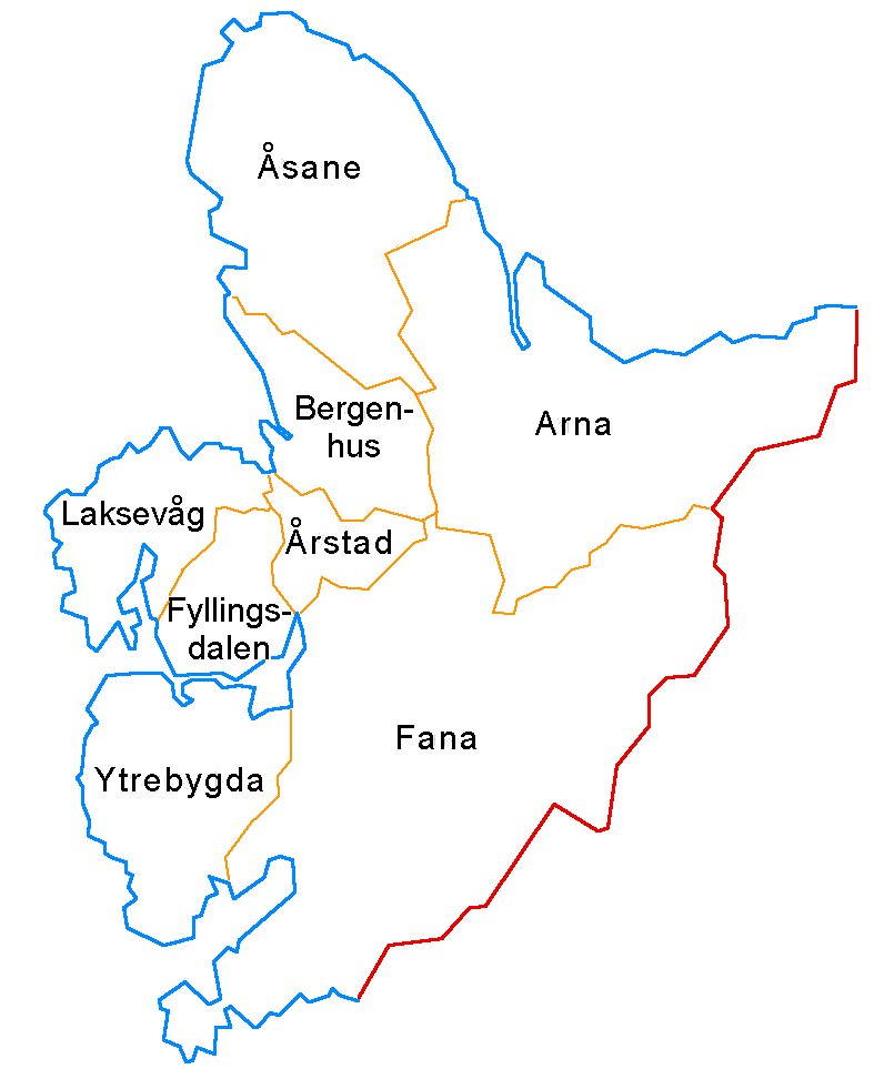 Map of Bergen with names and borders of the boroughs. See also the maps for each borough.